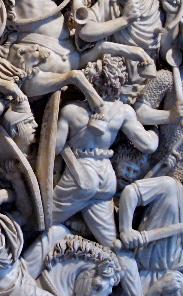 So-called “Grande Ludovisi” sarcophagus, with battle scene between Roman soldiers and Germans. The main character is probably Hostilian, Emperor Decius' son (d. 251 CE). Proconnesus marble, Roman artwork, ca. 251/252 CE.